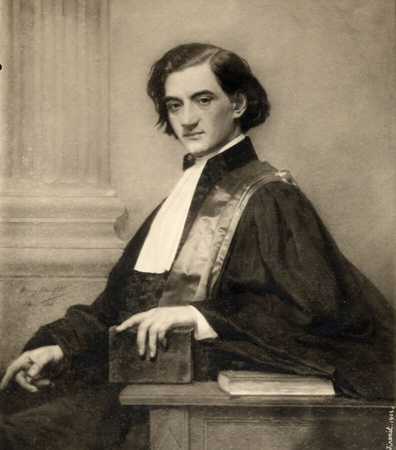 Alexandre Axenfeld